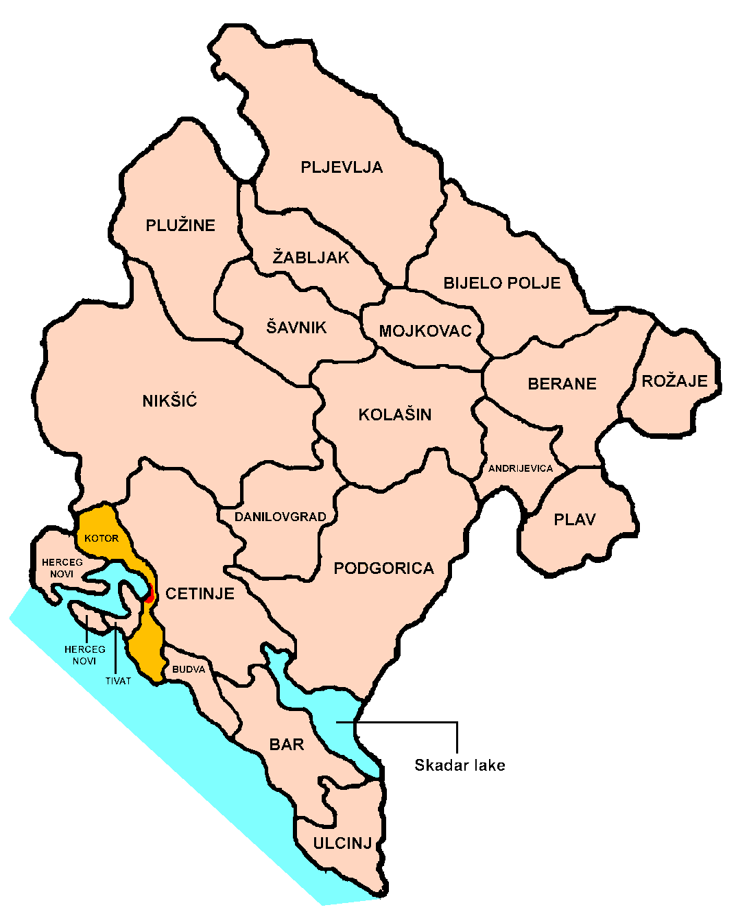 Location of Kotor town and municipality within Montenegro